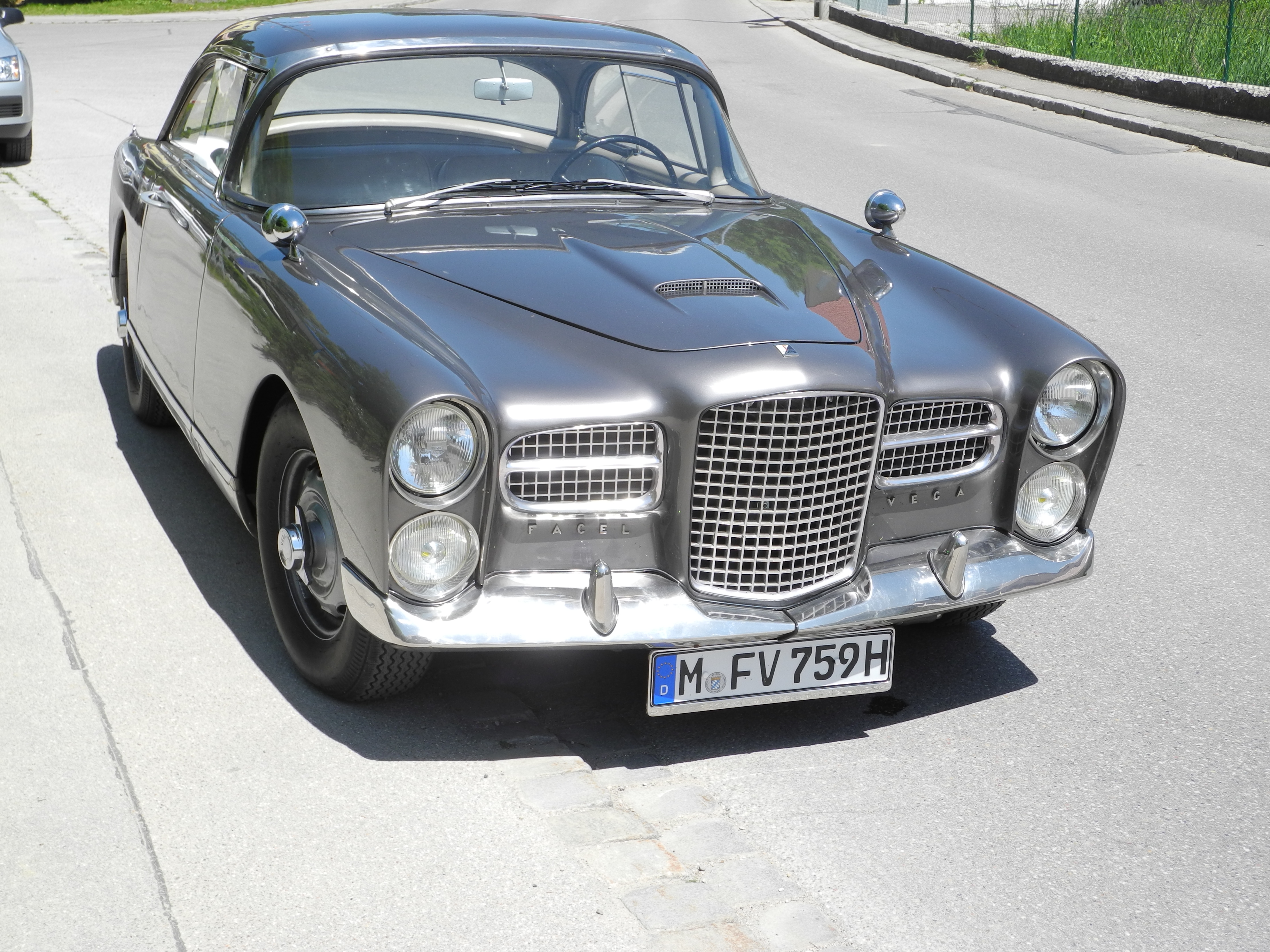 Facel Car / Facel Vega Facel II